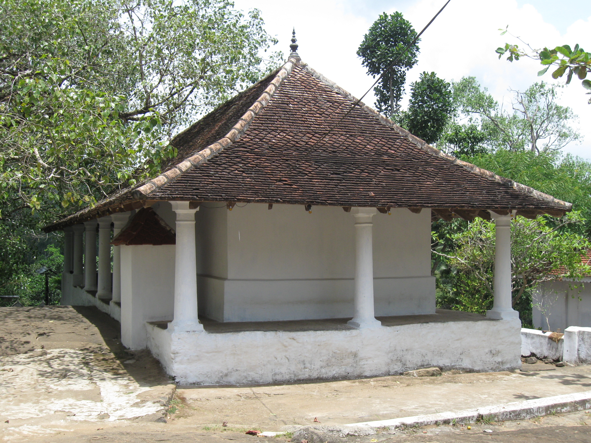 Photograph of Alawathugoda Saman Devalaya